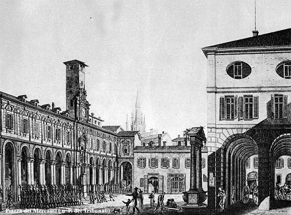 Engraving of Piazza Mercanti during XVIII century